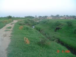 view of khoro dobian